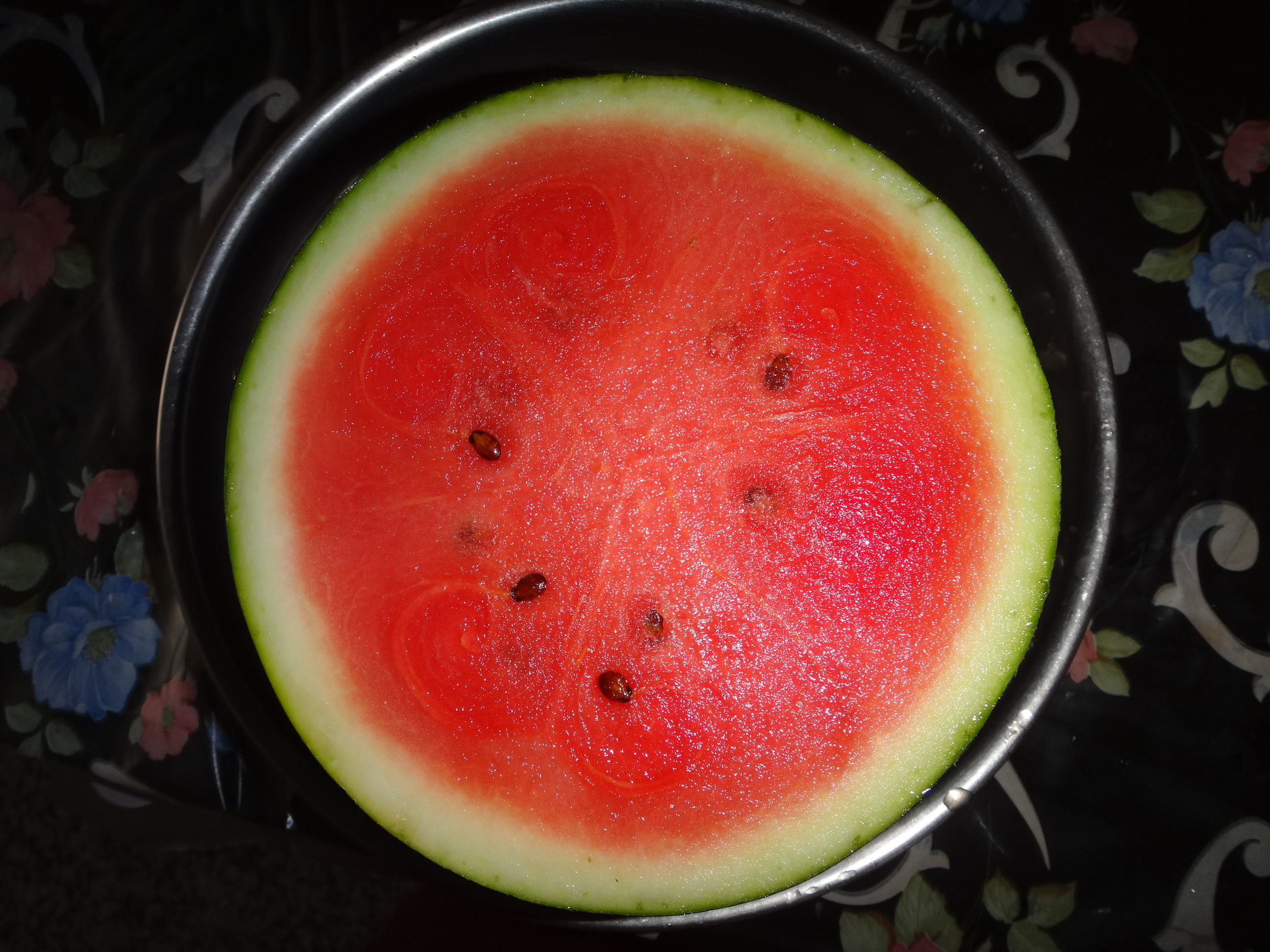 Water melon